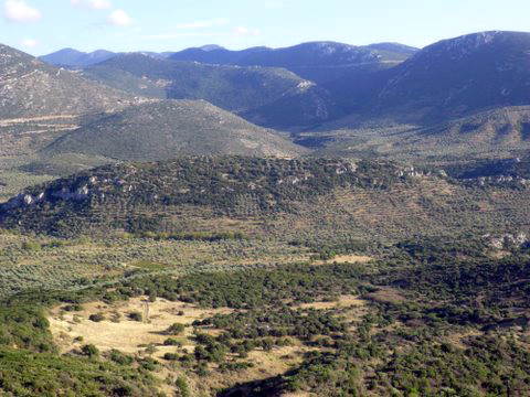 Acropolis of Steirida, Boeotia, Greece